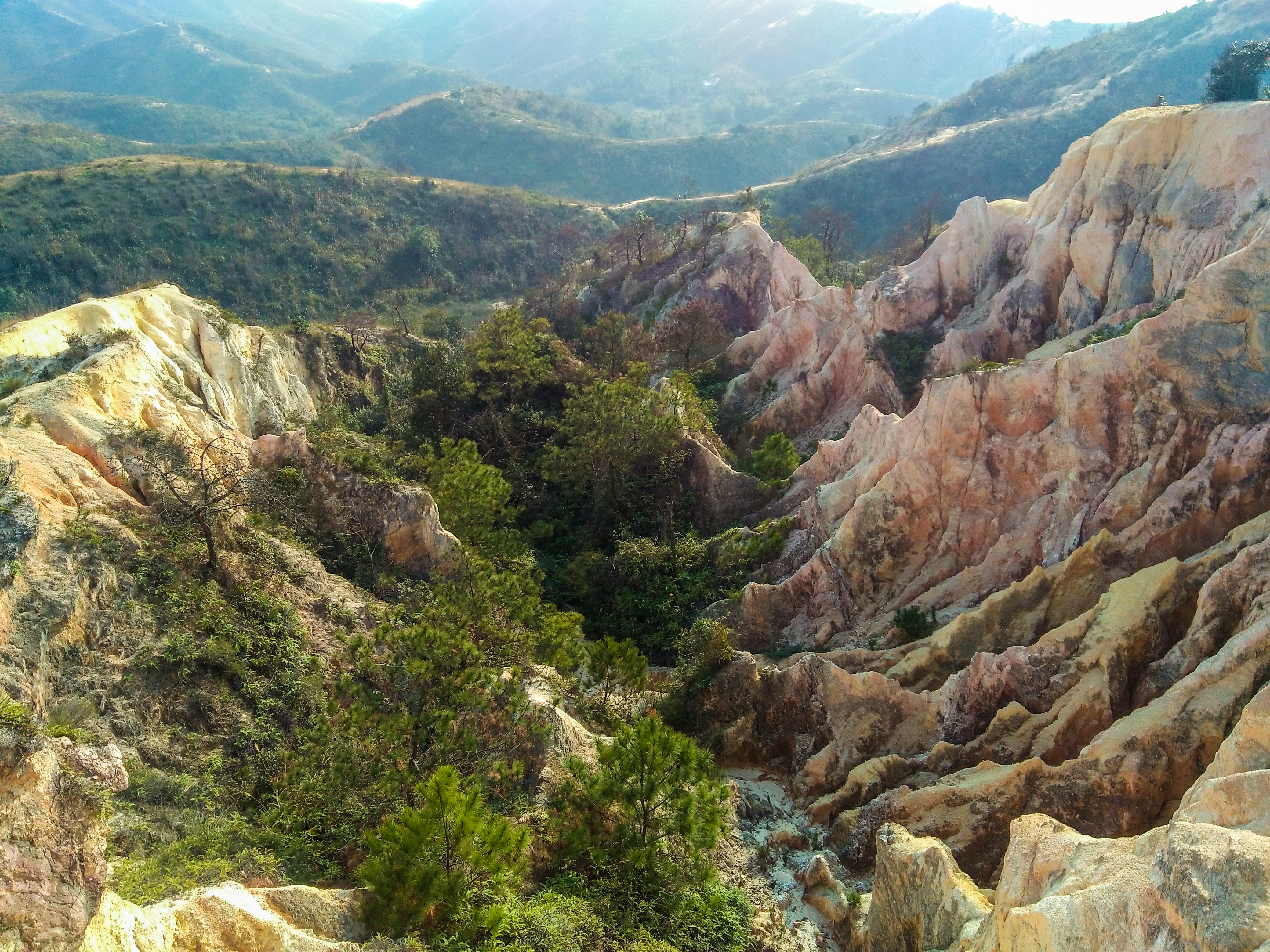 Castle Peak Basin - The Red Gullies with Green Pine 1